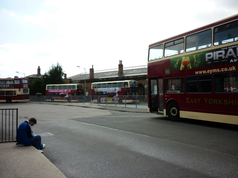 A mini walk around Pocklington #11, Data from Geograph: Description: Back in time to catch my bus to Hull. ICBM: 53.929215524839, -0.7799115538959 Location: (about 0 km from) near to Pocklington, East Riding of Yorkshire, England.